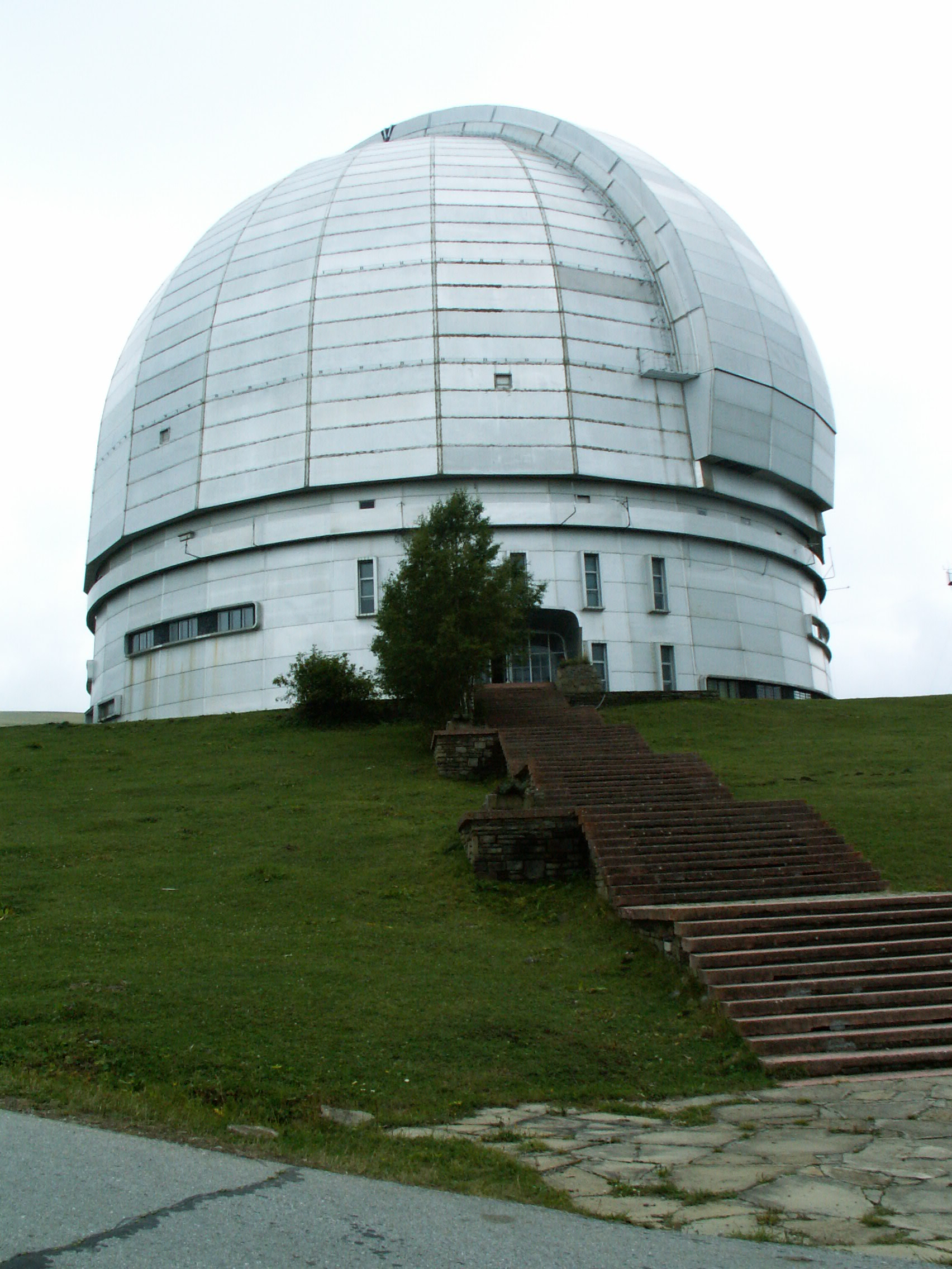 BTA-6 (Large Altazimuth Telescope) 6-metre (20 ft) aperture optical telescope at the Special Astrophysical Observatory. First light in 1975, the largest telescope in the world until 1990.